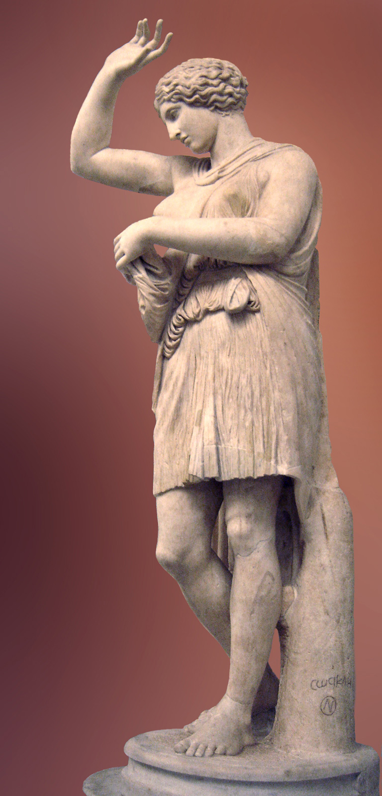 Wounded Amazon of the Capitol-Sosikles type. Marble, Roman copy signed by Sosikles after a Greek original by Polykleitos (or Kresilas?).